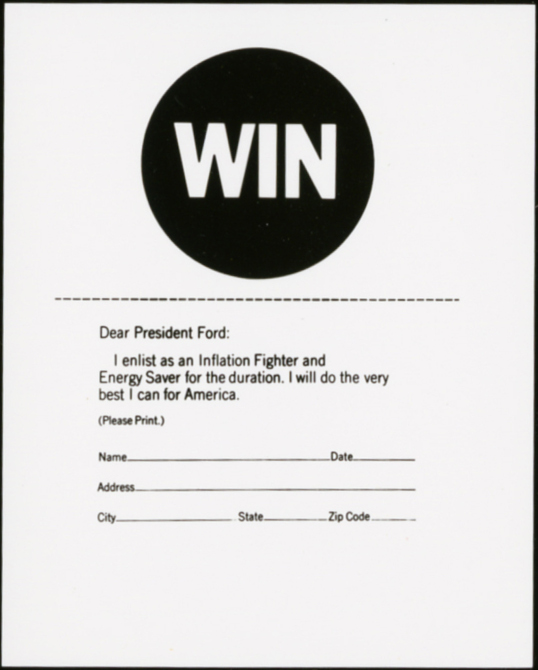 A form for the Whip Inflation Now campaign. The form reads: "Dear President Ford: I enlist as an inflation fighter and Energy Saver for the duration. I will do the very best I can for America." The form was mailed to the president and a WIN button would be returned.